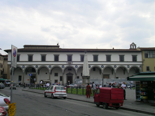 Loggia Museo Novecento in Florence, Italy. It used to be here the Hospital of Saint Paul, the Ospedale di San Paolo.